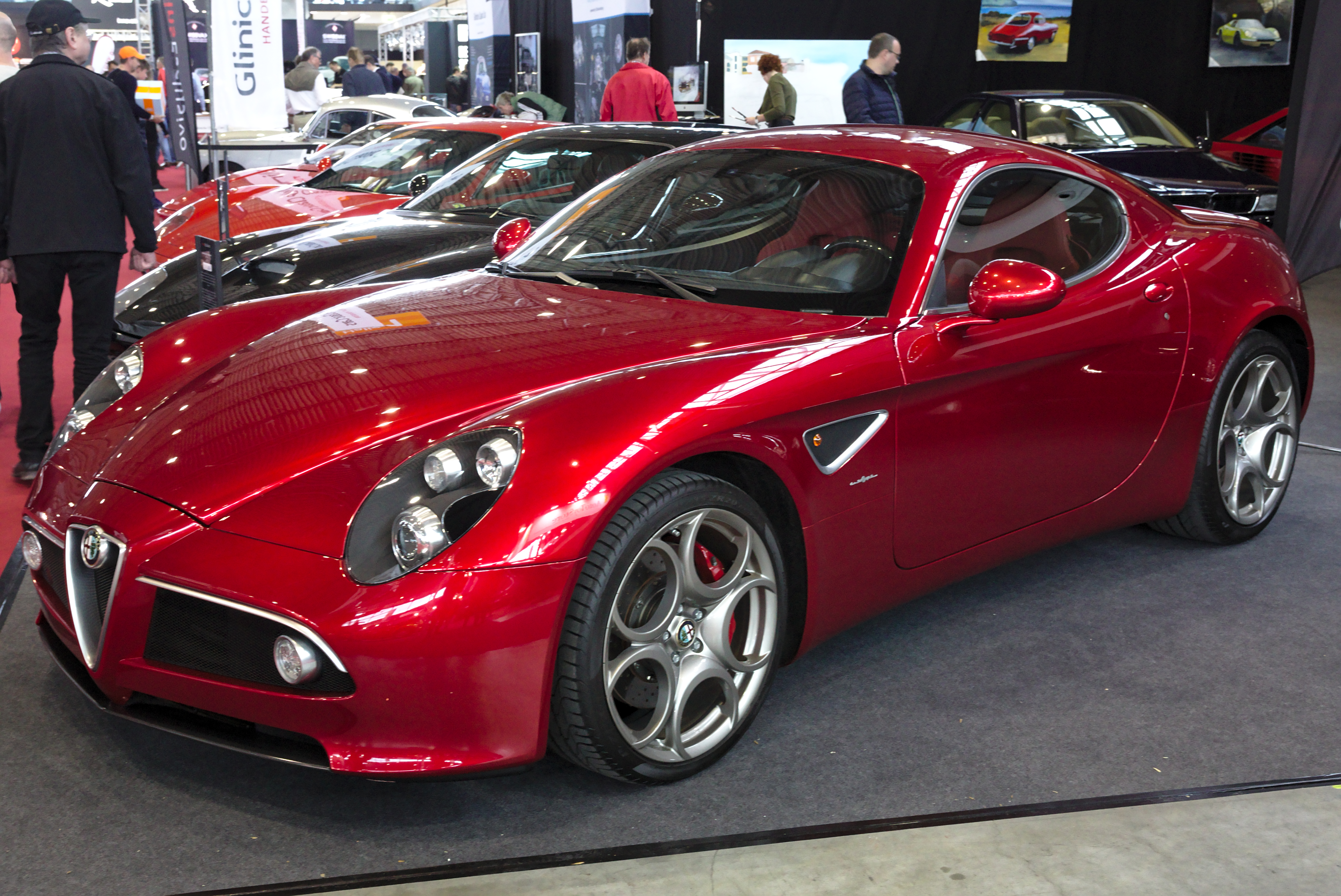 Alfa Romeo 8C Competizione at Retro Classics 2019